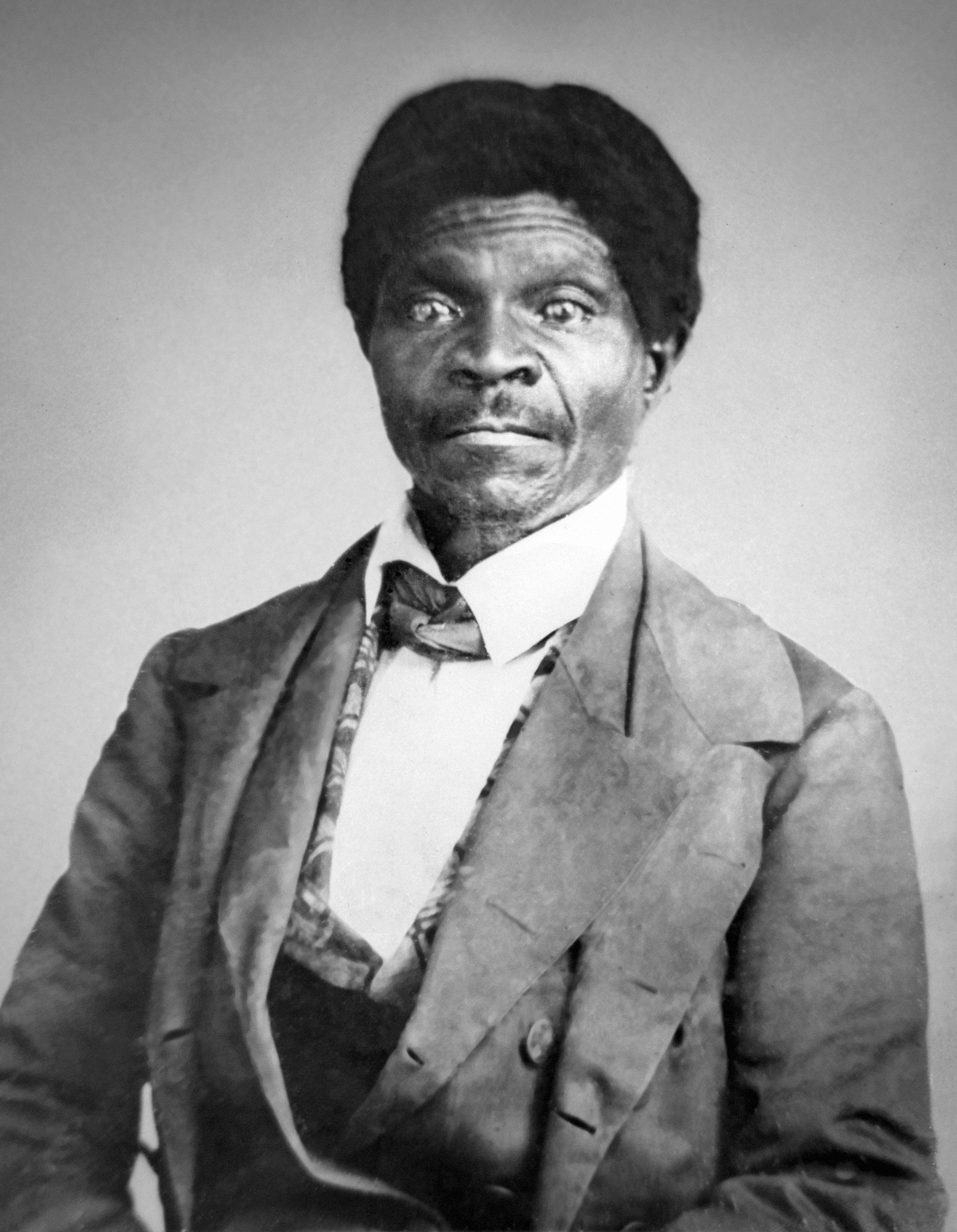 A photograph of Dred Scott, taken around the time of his court case in 1857